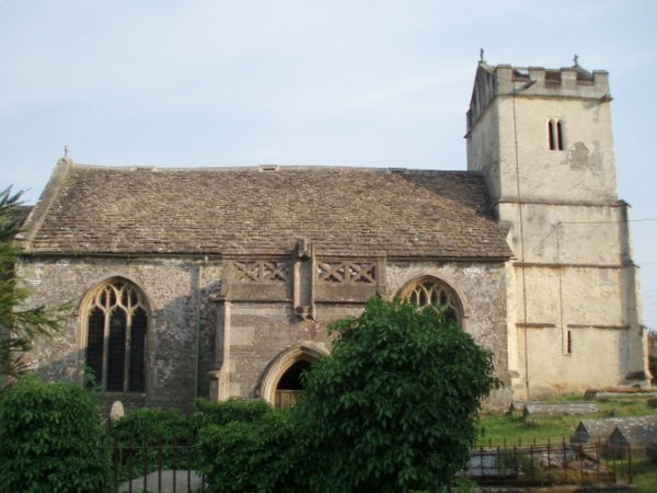 St James' parish church, Churchend, Charfield, Gloucestershire, seen from the north